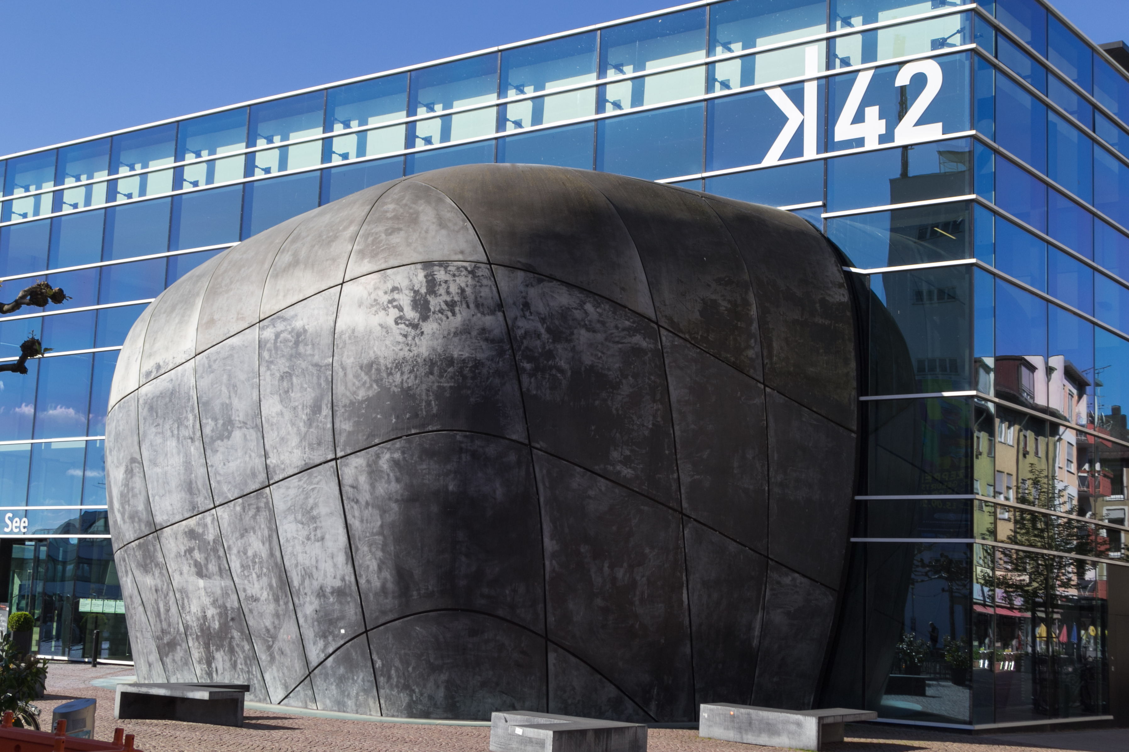 The media house "K 42" in Friedrichshafen.